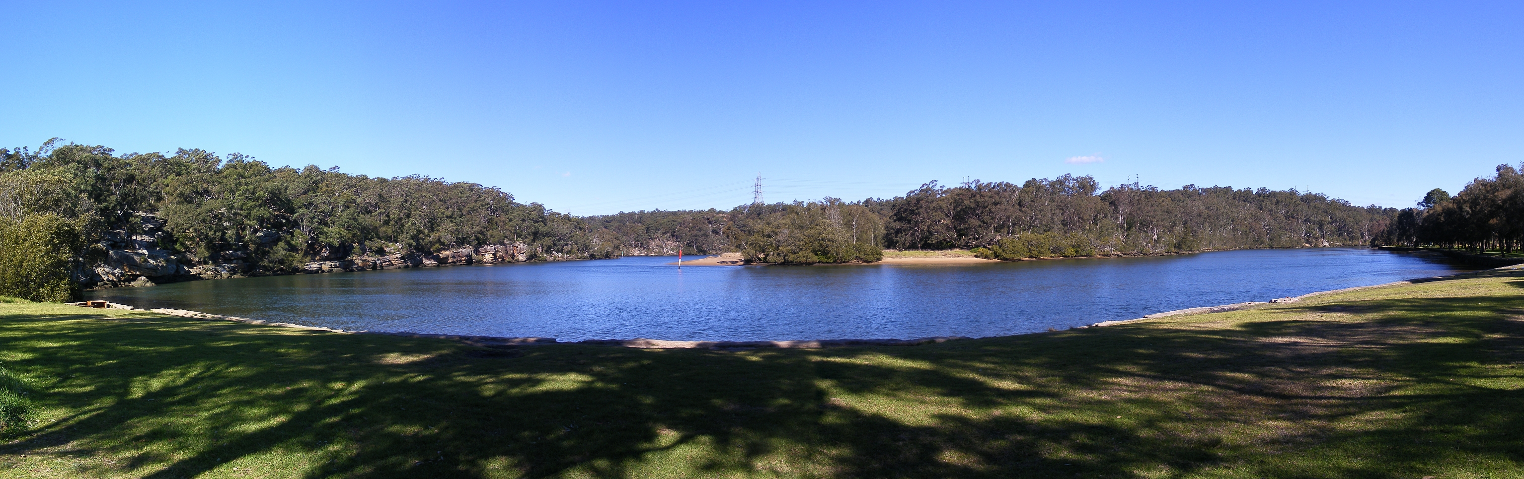 Georges River New South Wales